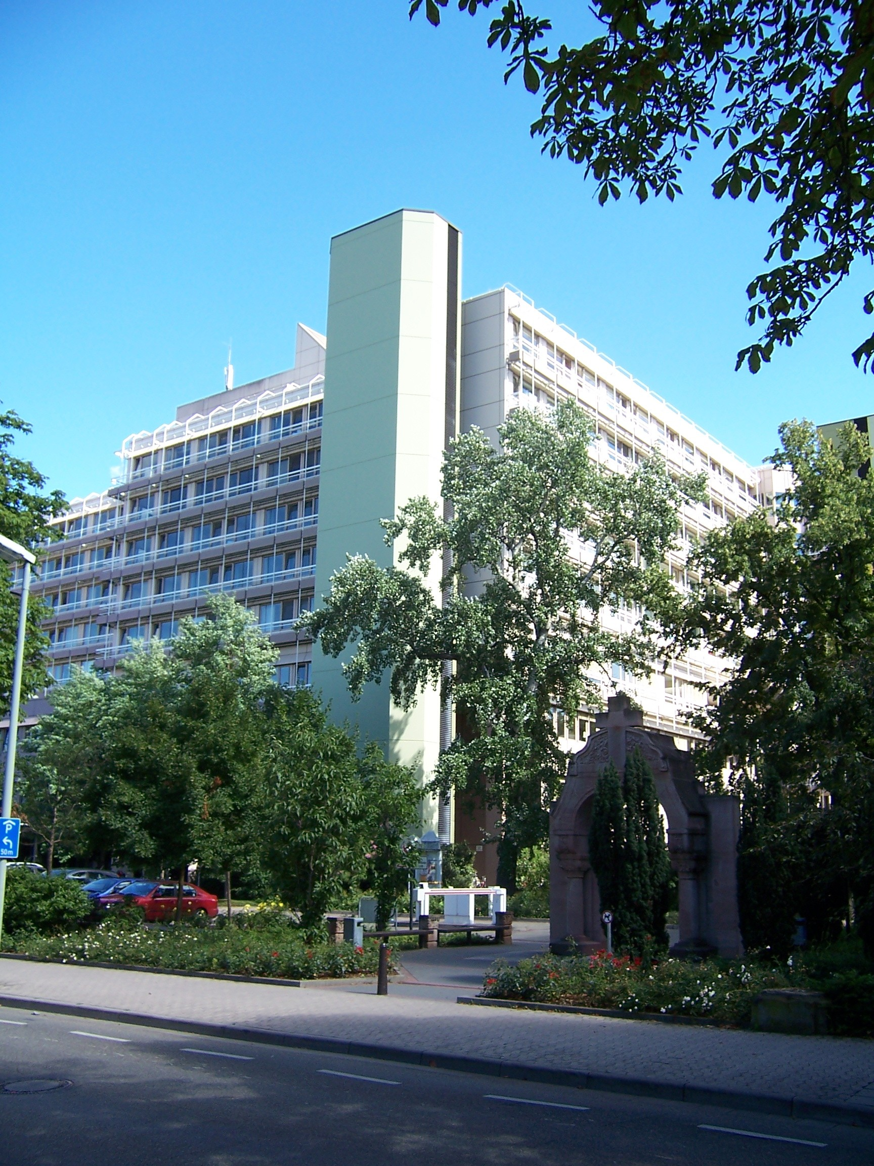 Hospital in Bad Kreuznach